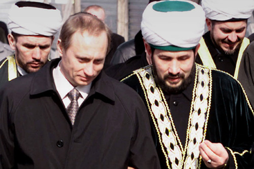 Kazan, Tatarstan. Vladimir Putin with Mufti Gusman hazrat Izhakov